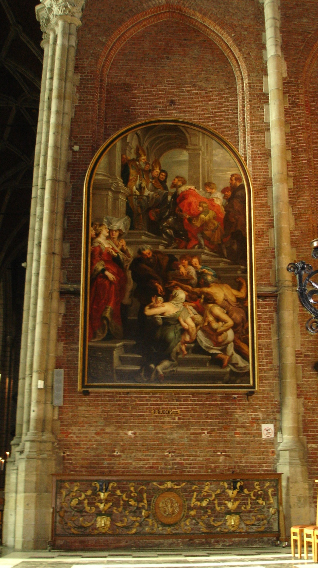 own picture taken